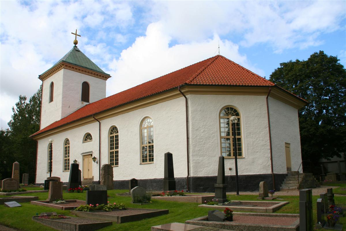 Härryda Church